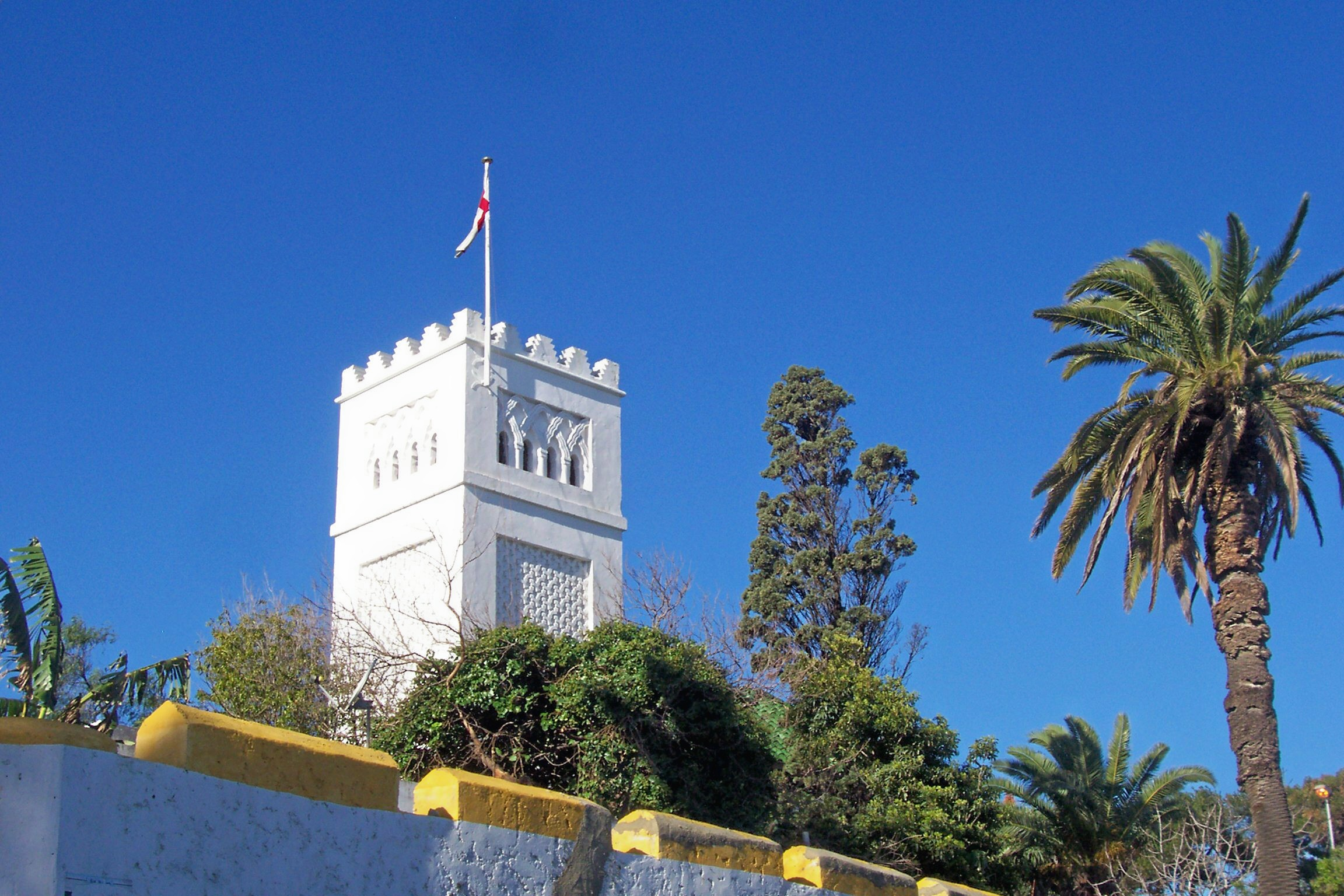 St. Andrews church, Tangier